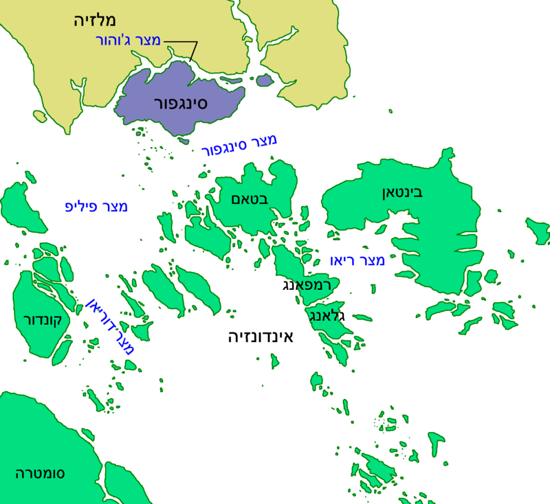 A map of the Singapore Strait with Hebrew labels.